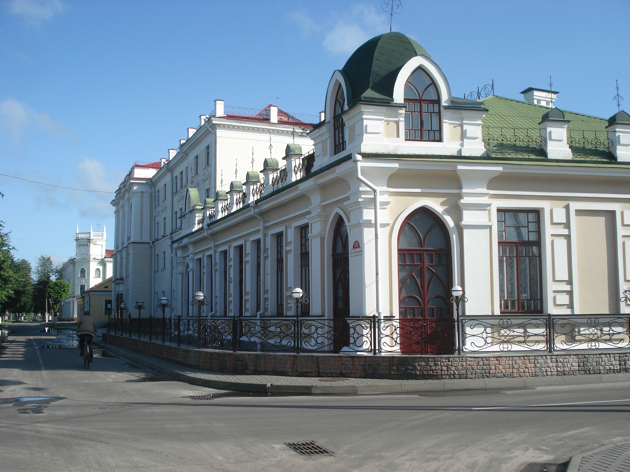 Theater, Pinsk